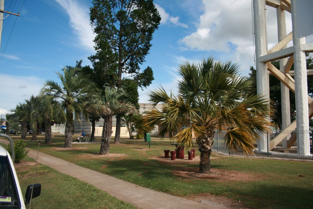 Bundaberg War Nurses Memorial and Park (2009)